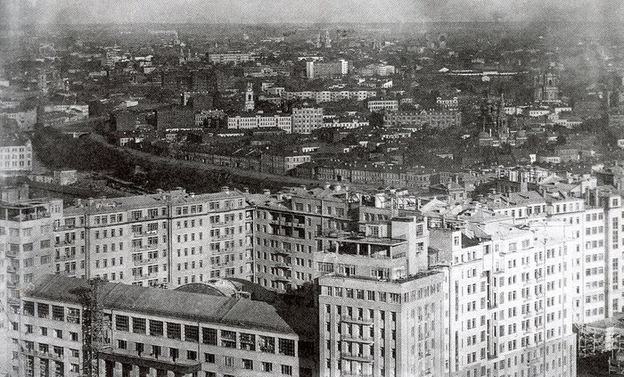 Bird's eye view of the House on Embankment and Zamoskvorechye